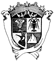 Coat of arms of French Southern and Antarctic Lands. Transferred from pl.wikipedia to Commons. The original description page was here. All following user names refer to pl.wikipedia. (see pl).